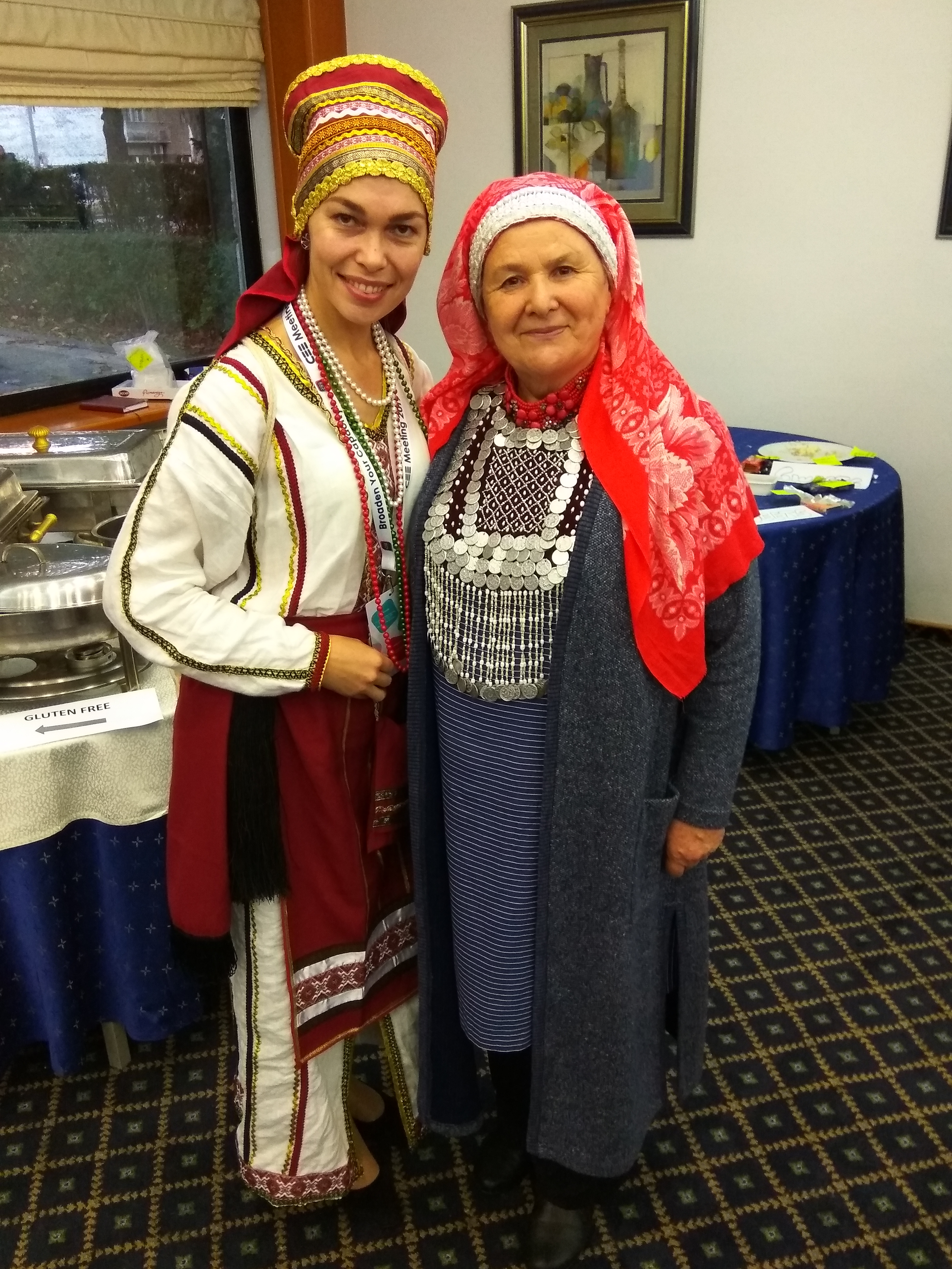 Erzia and Bashkortostan CEE 2019 participants